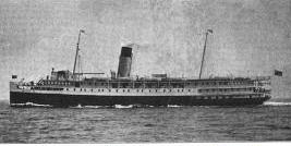 Canadian Pacific Railroad's SS Princess Alice c. 1912